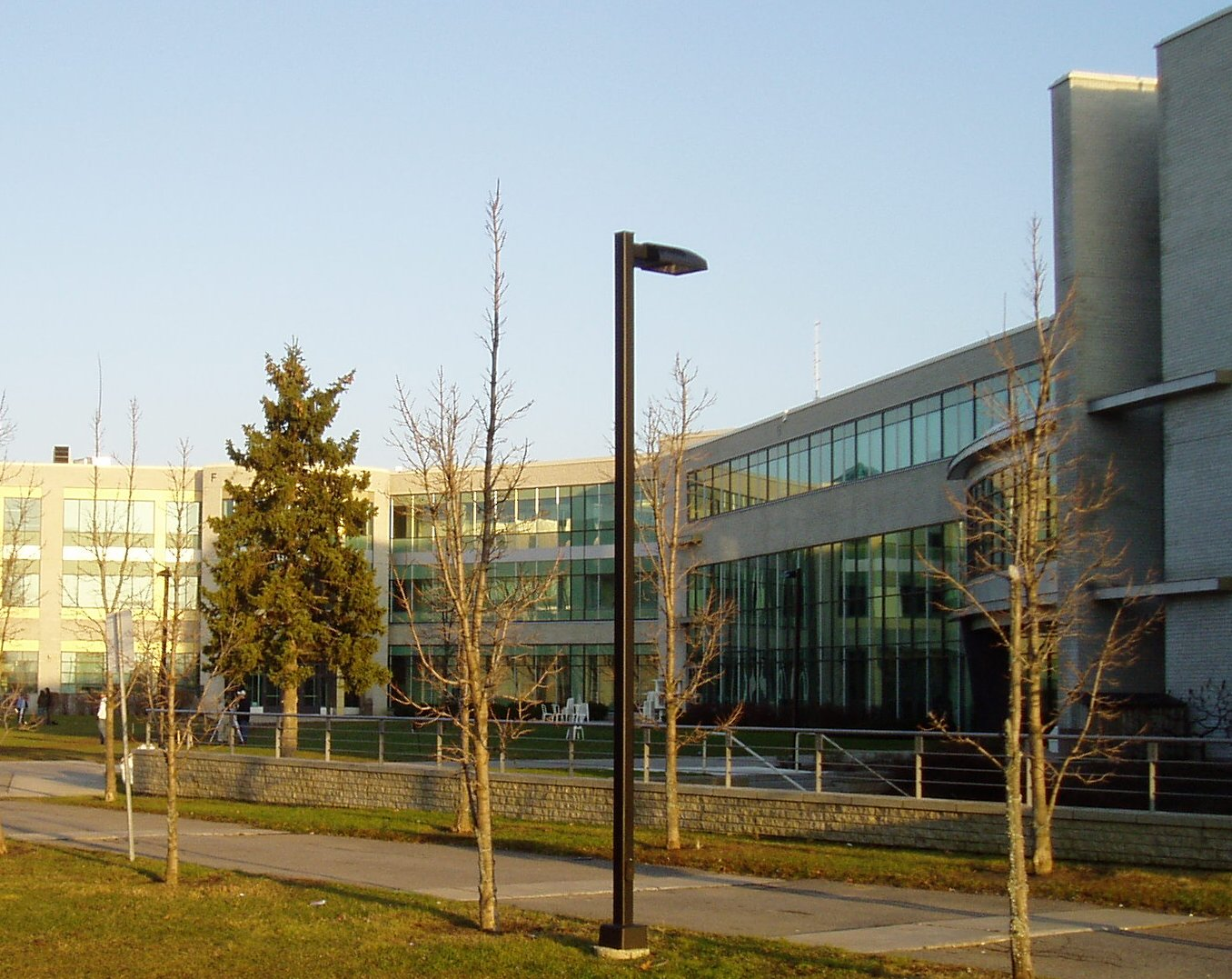 La Cité collégiale, a French-language community college in Ottawa, Ontario, Canada.